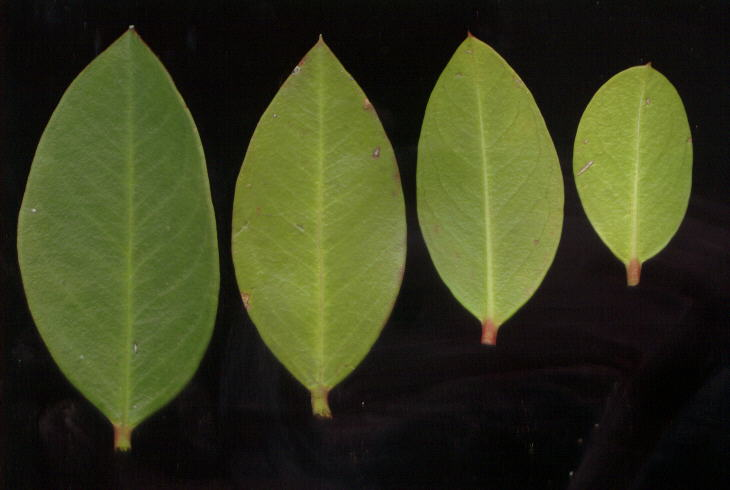 Acokanthera oppositifolia leaves